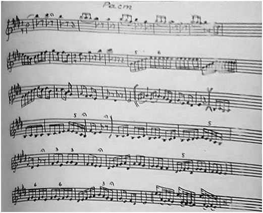 Notes of Rast mugham by Muslim Magomayev